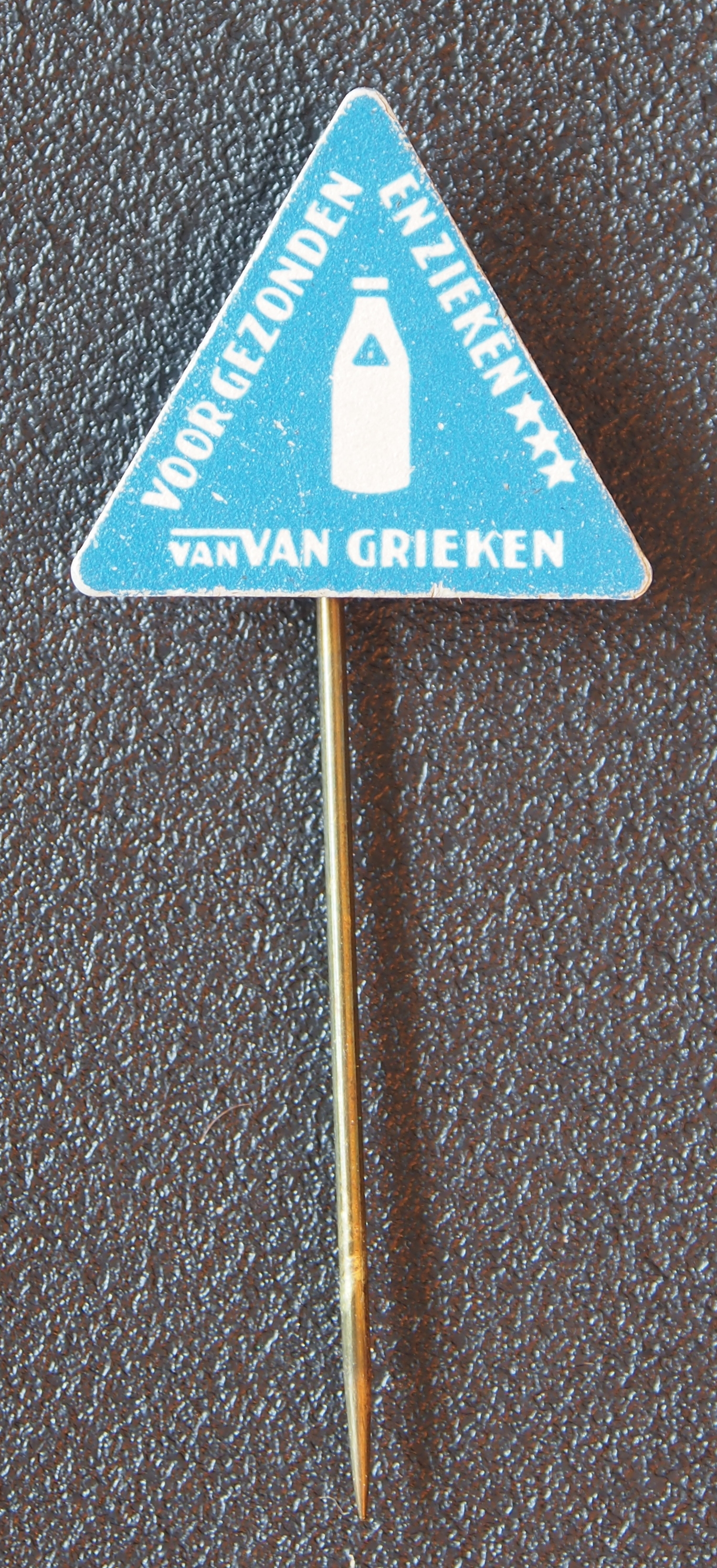 'Advertising pins from the '60s - 70s.